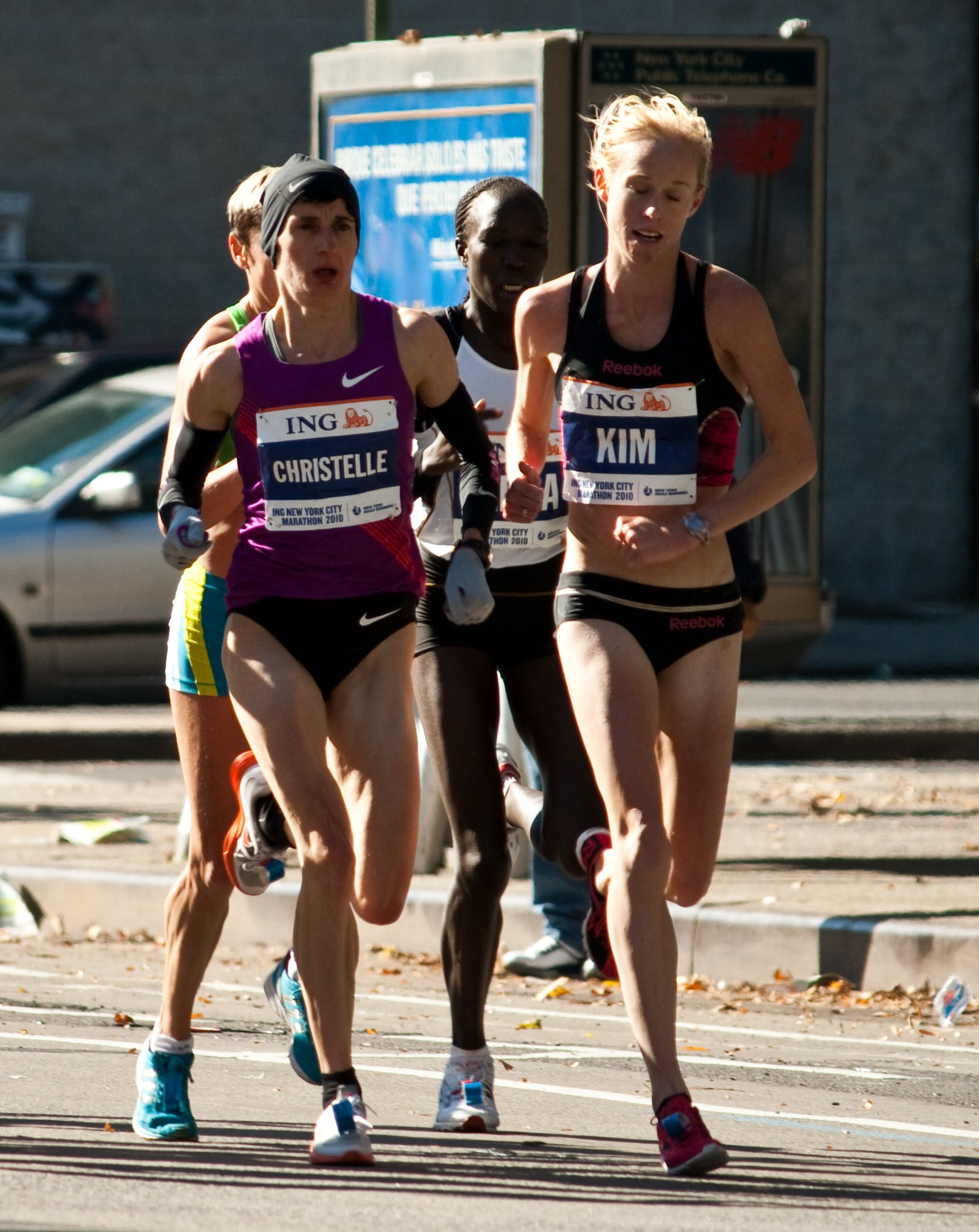 Women's leading pack at Mile 17 - Kim Smith (NZL) and Christelle Daunay (FRA)